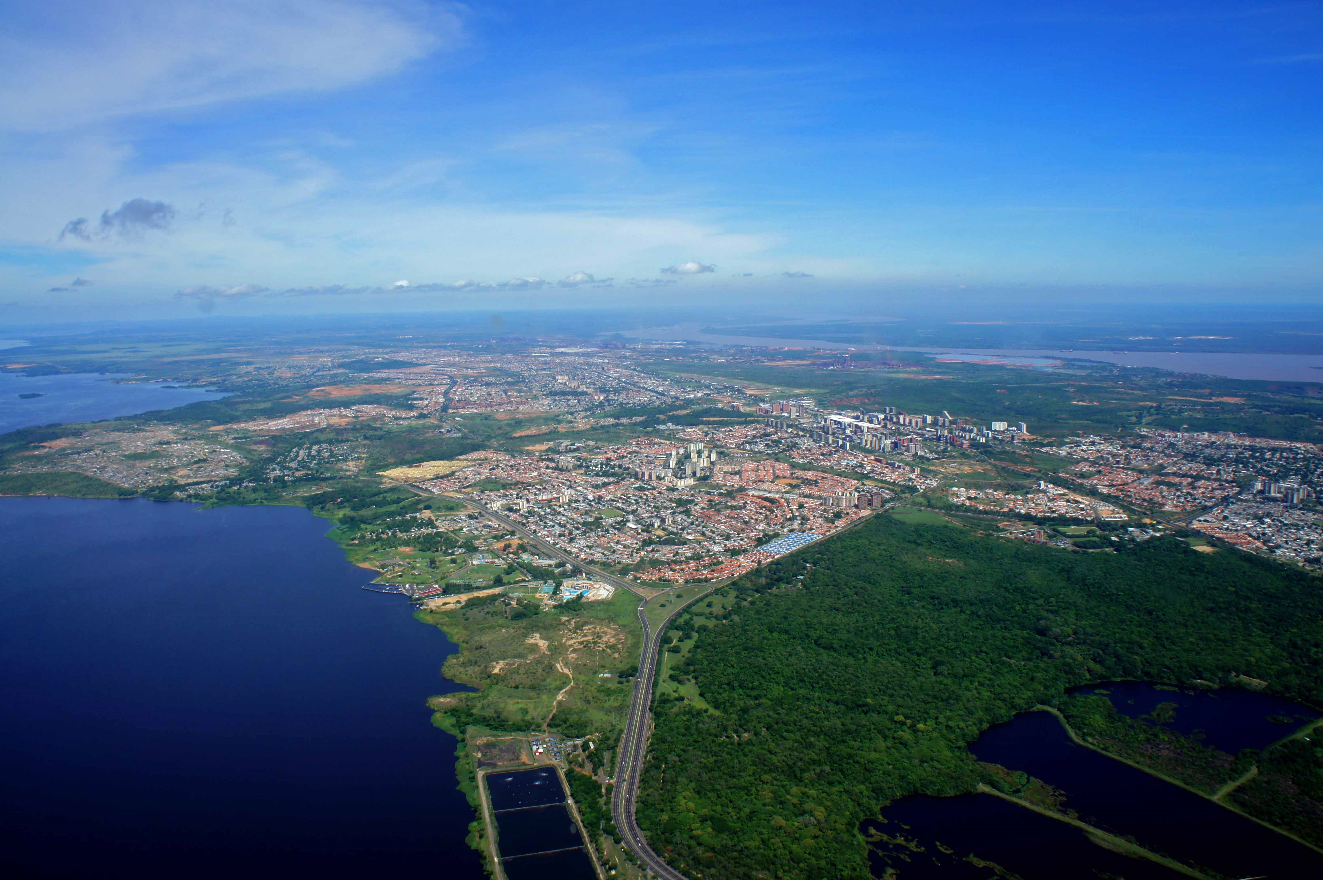 A la izquierda el rio Caroní - al fondo a la derecha el rio Orinoco